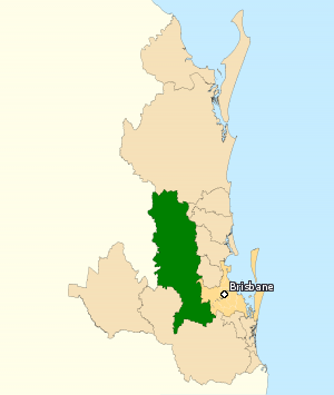 This image incorporates data that is: © Commonwealth of Australia (Australian Electoral Commission) 2009 Division of Blair 2010